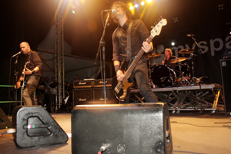 Danko Jones at the Maquinária Festival @ SP - 07/11/09